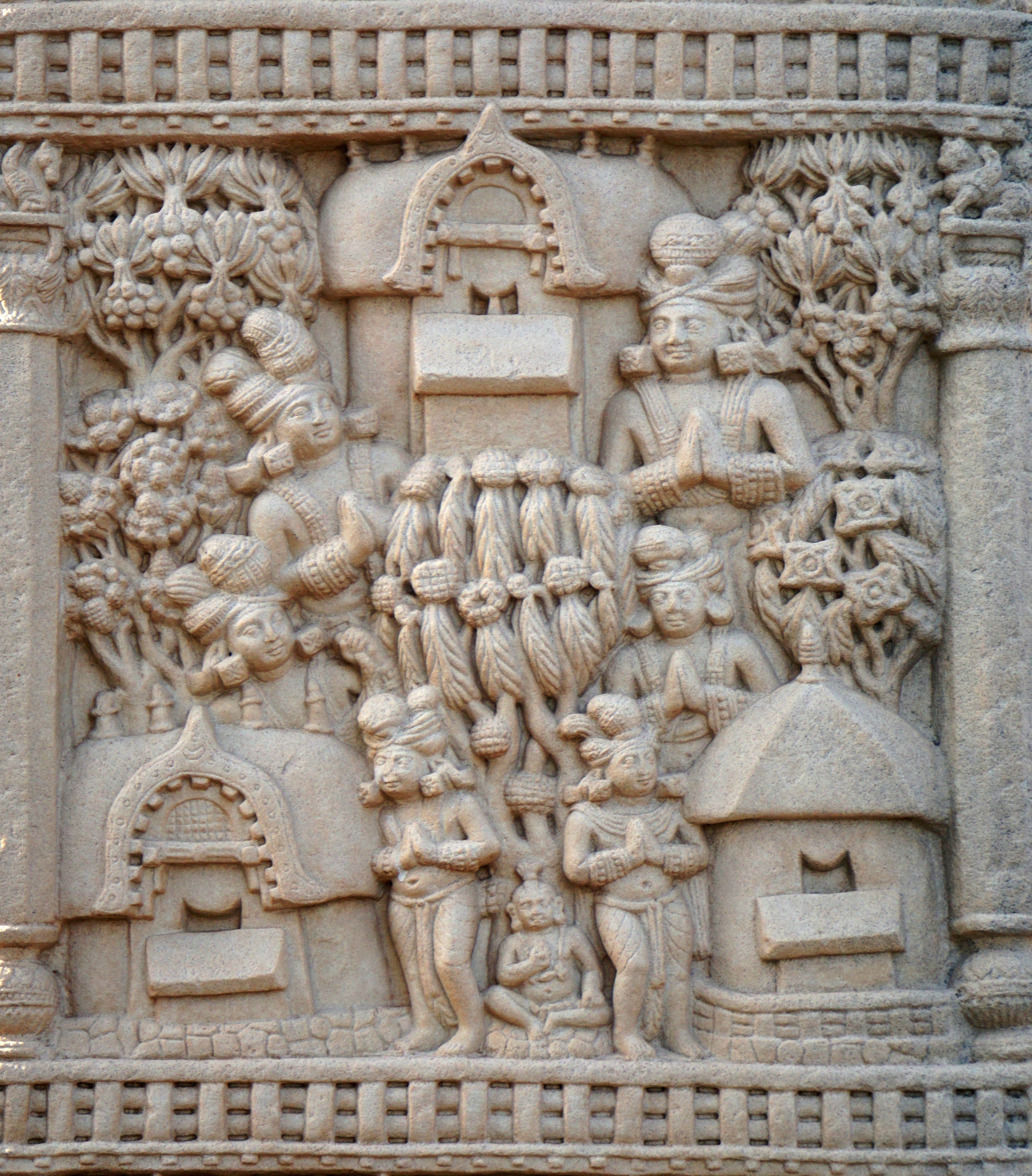 38 Jetavana, North Gate, Stupa no. 1, Sanchi, photograph by Anandajoti Bhikkhu. Marshall p.58